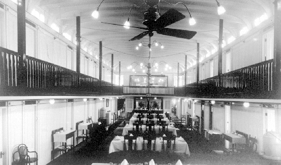 Dining salon of Bonnington (sternwheeler) on Arrow Lakes, BC, ca 1912.